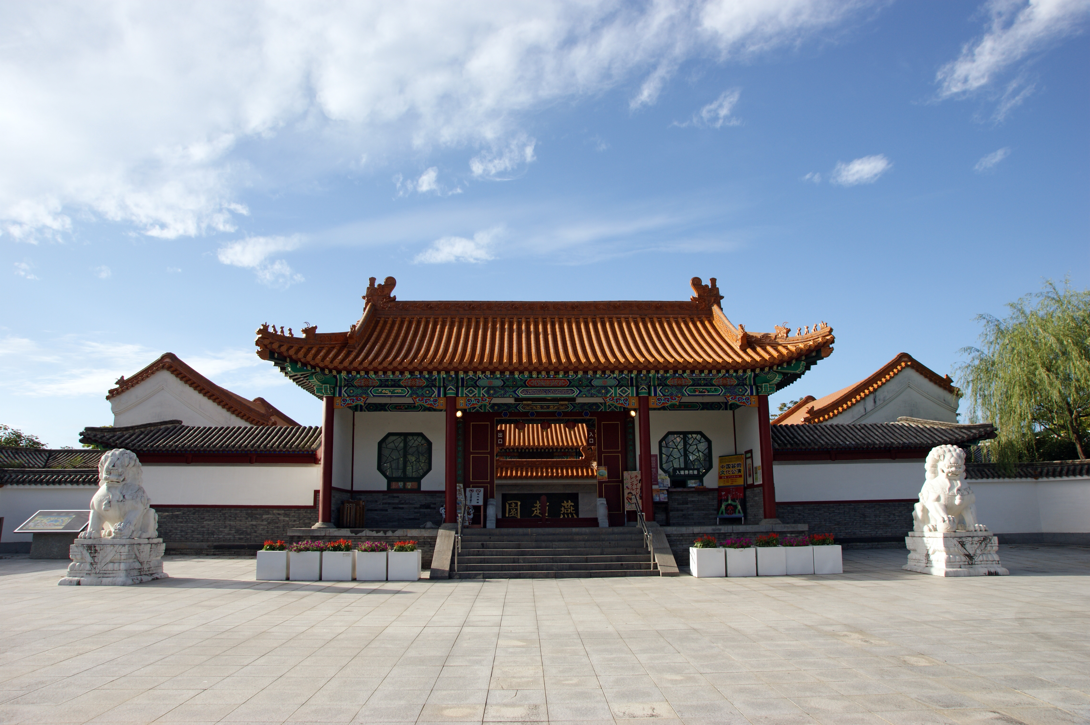 Enchoen in Yurihama, Tottori prefecture, Japan